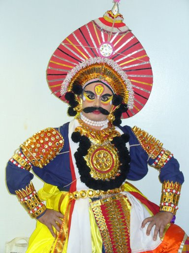 yakshagana "Kausa vade" played at Havyaka convention. Sreepada Hegade as Akrura